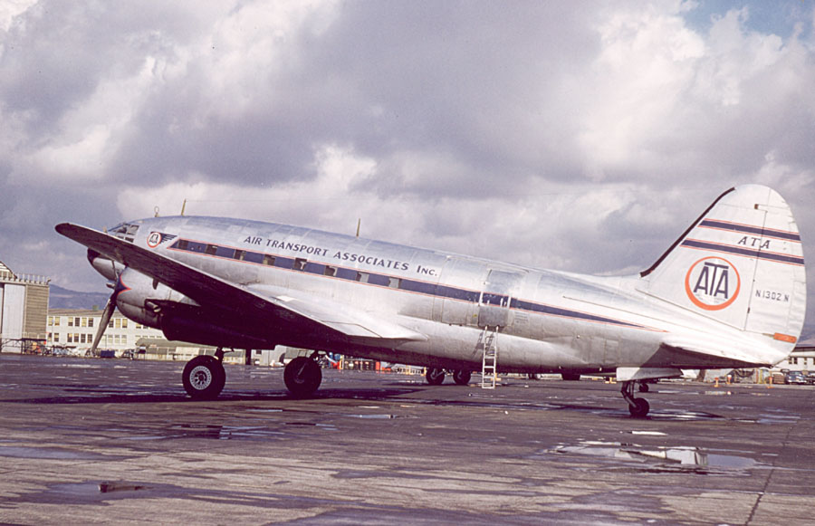 Curtiss C-46F in November 1952.